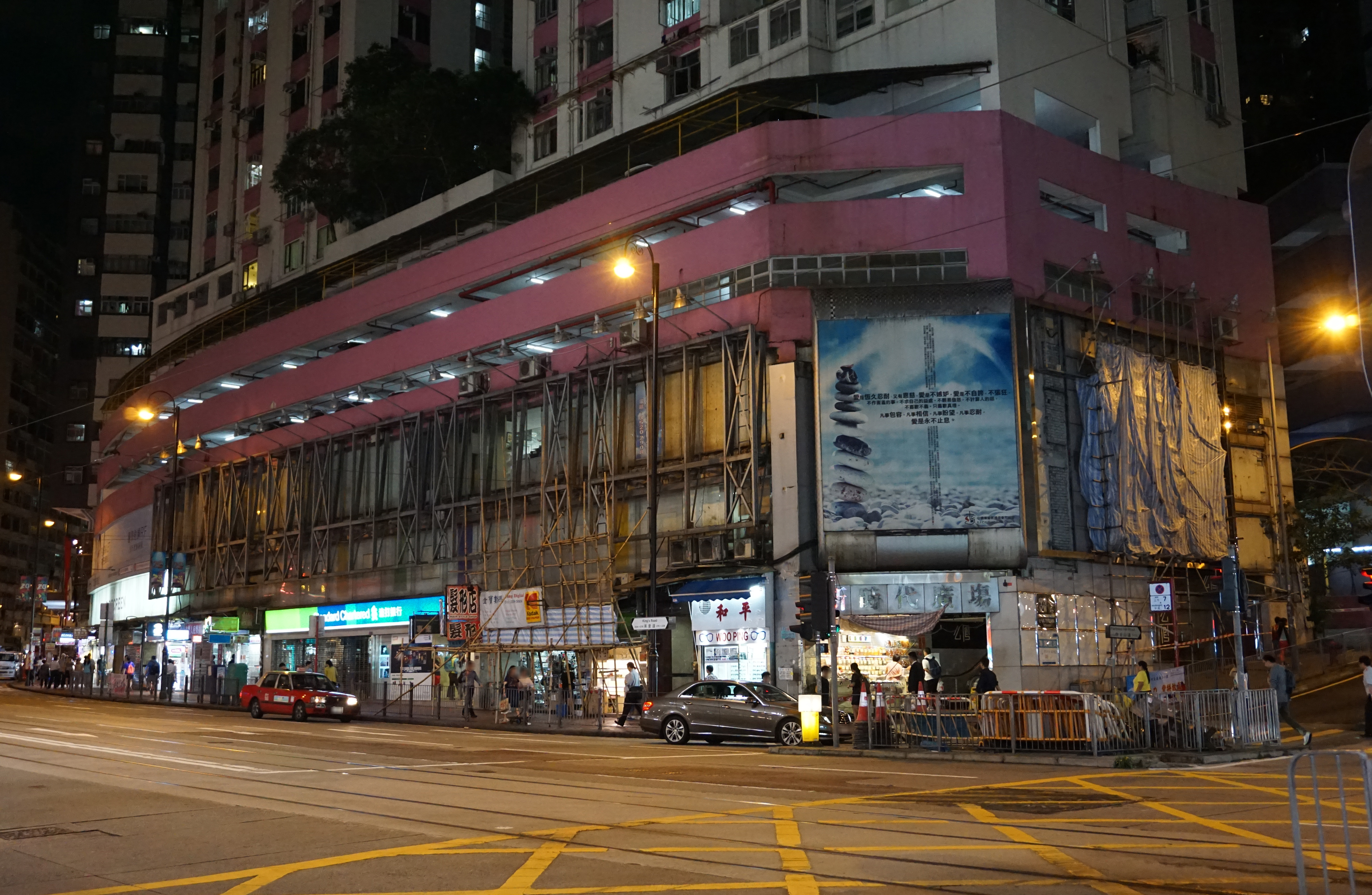 New Trend Plaza in Fortress Hill, Hong Kong.